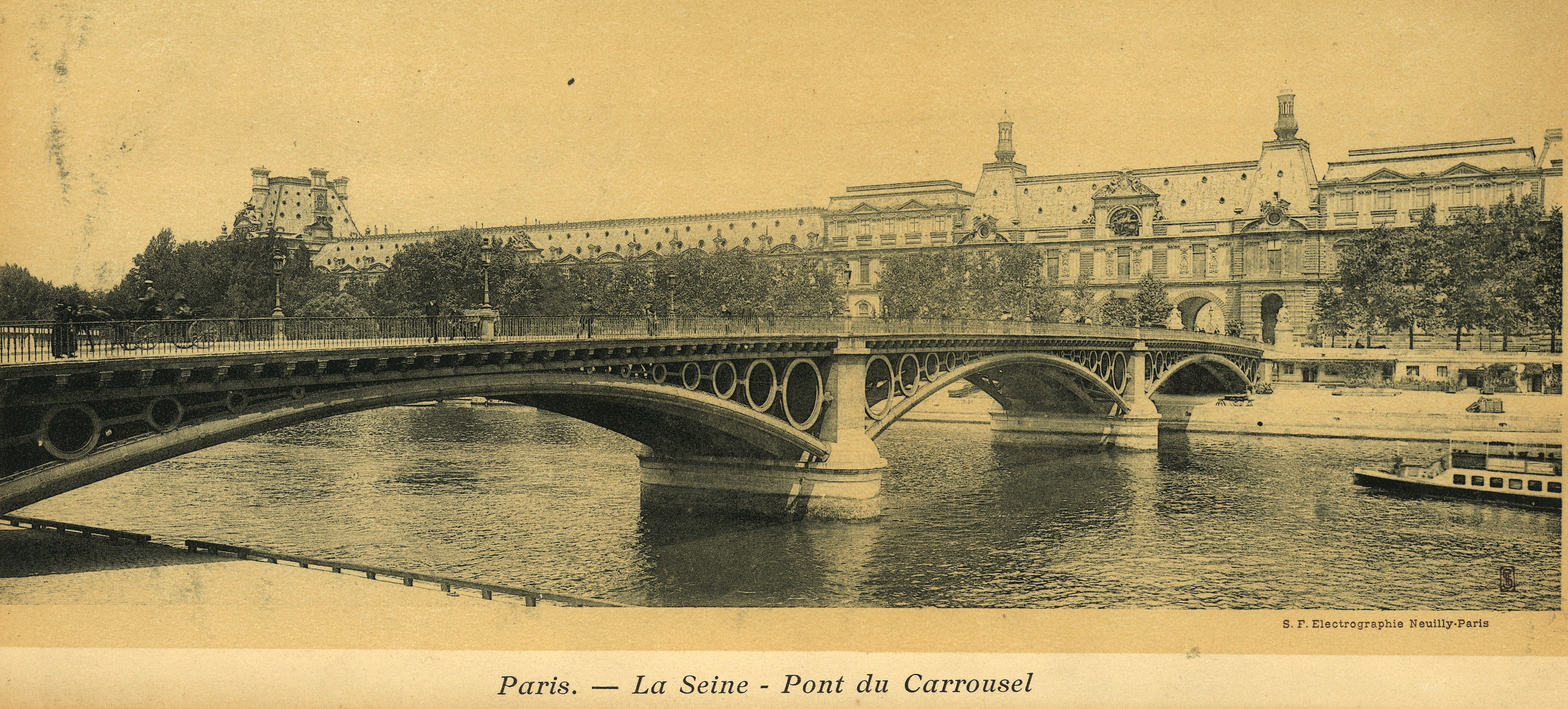 Turn of the century photo of the old Pont du Carrousel